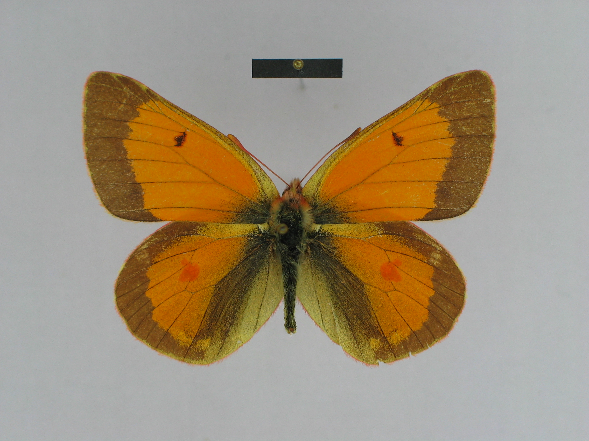 Paralectotype of the species Colias wanda wanda from the collection of the Zoological Museum of the Zoological Institute of the Russian Academy of Sciences (Berlin); ♂ dorsal side; scalebar=1 cm